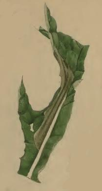 Stainton’s Natural History of the Tineina (1855–1873): Agonopterix carduella a mined leaf of Cirsium vulgare